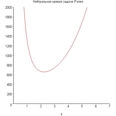 A neutral curve for the first harmonic in the Rayleigh plane layer with free boundaries convection problem